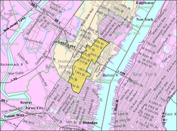 Census Bureau map of Union City